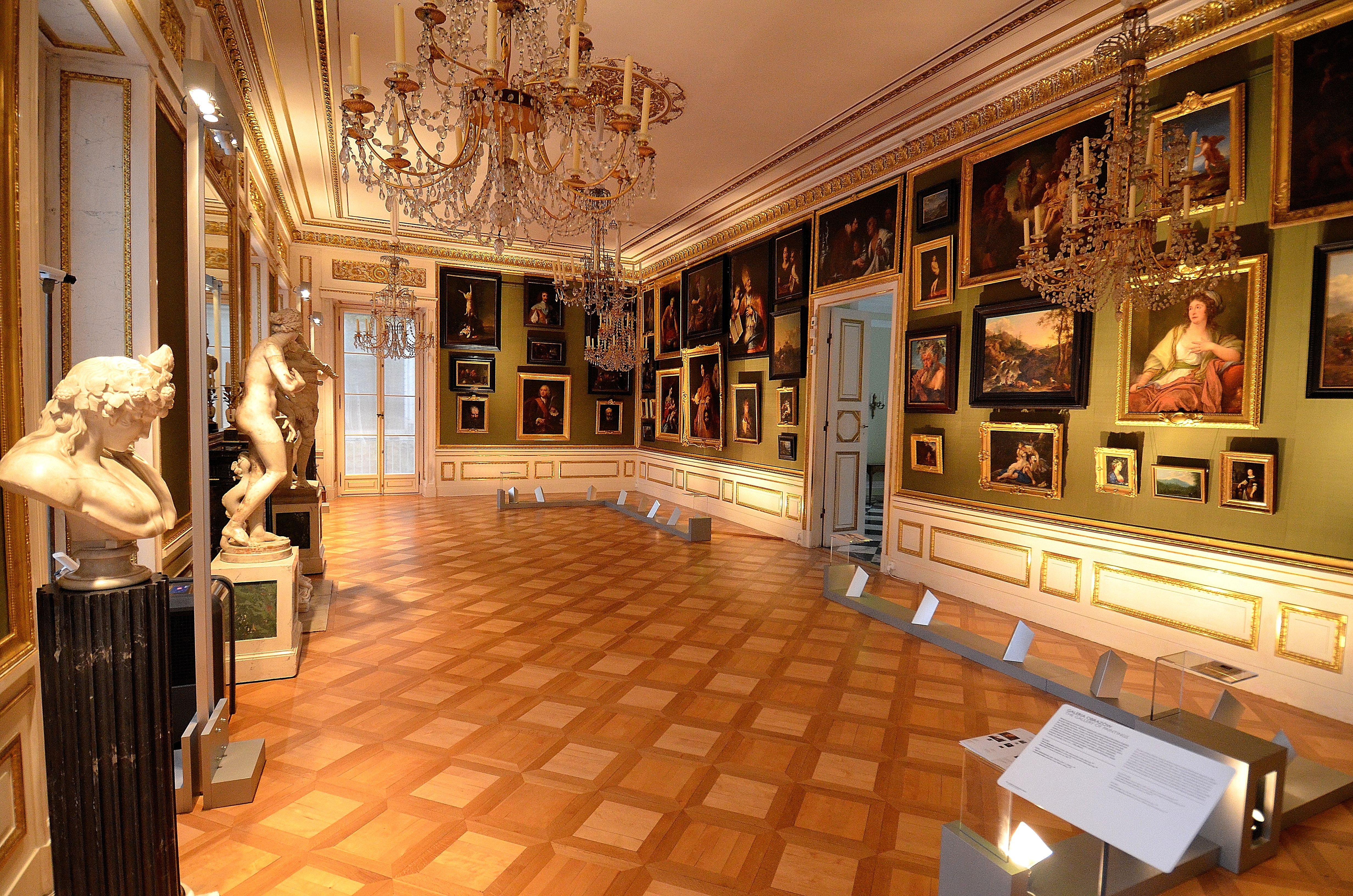 The gallery of paintings in the Łazienki Palace in Warsaw (listed in the Register of Historic Monuments on 1.07.1965, reference no. 2/2)